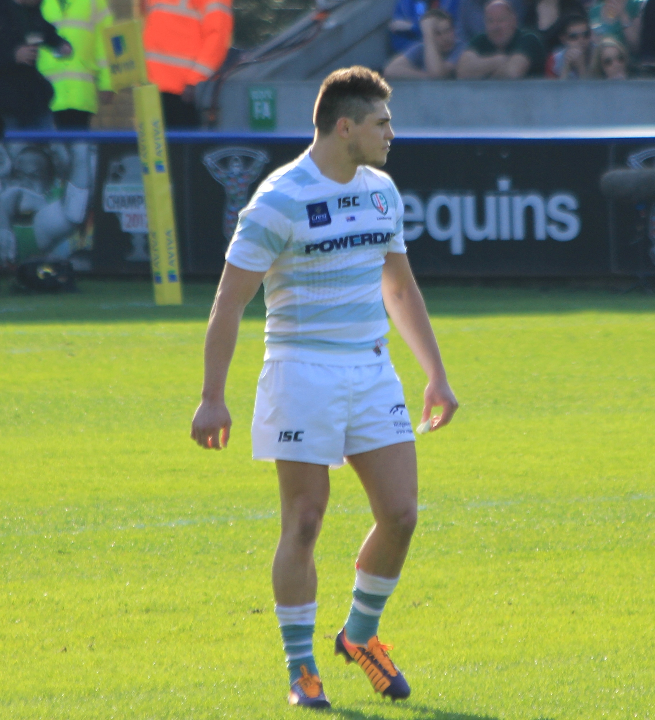 James O'Connor 2013-14 English Premiership Harlequins vs London Irish